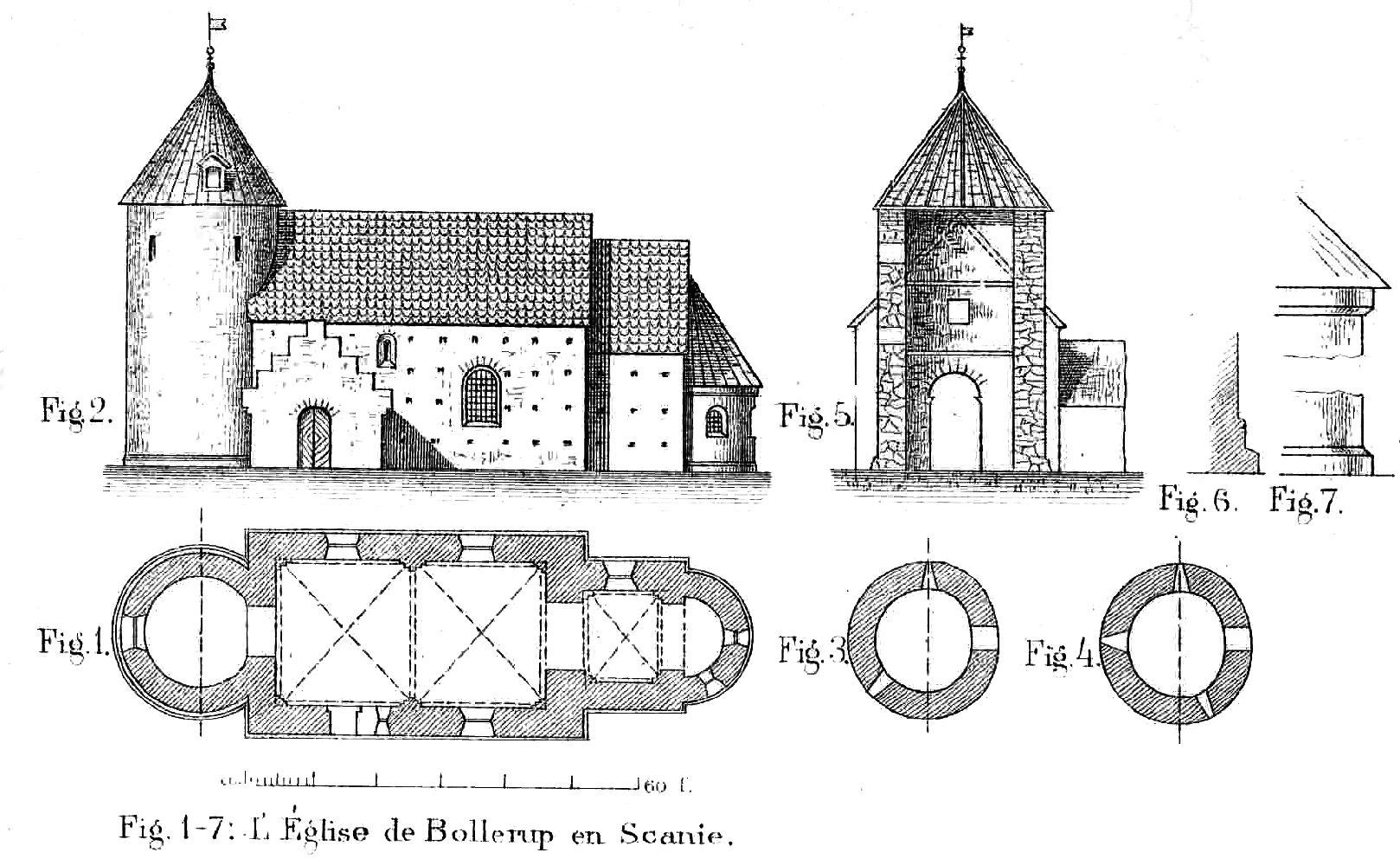 Bollerup church in Sweden in the mid 1800's. Drawing: Nils Månsson Mandelgren, published 1883.